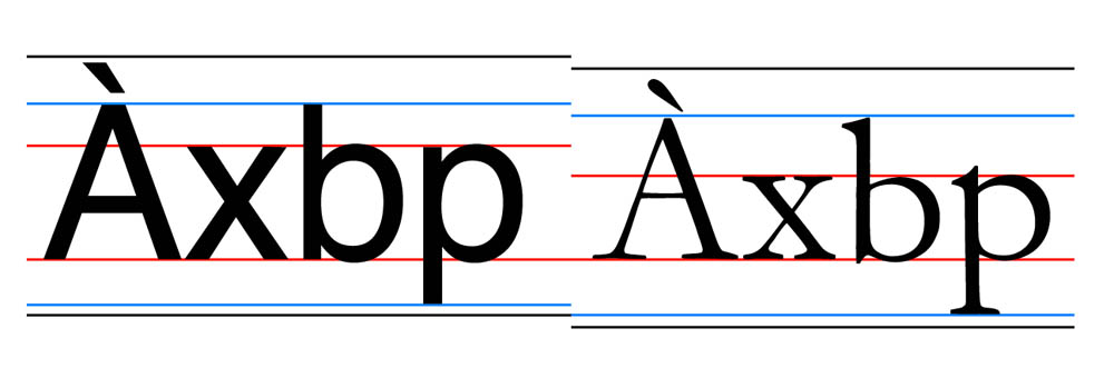 X-height (red lines), ascenders and descenders (blue lines), body (black lines), comparison between Helvetica (left) and Garamond (right)